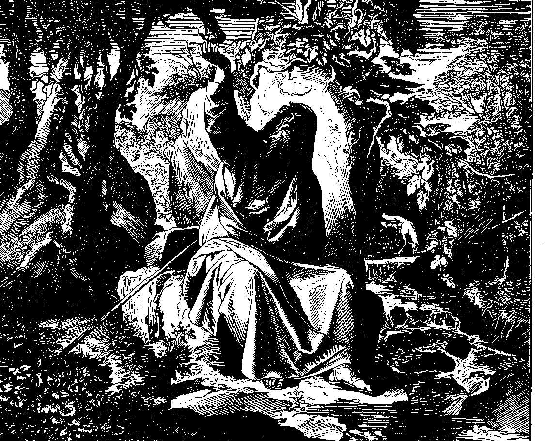 Woodcut for "Die Bibel in Bildern", 1860.